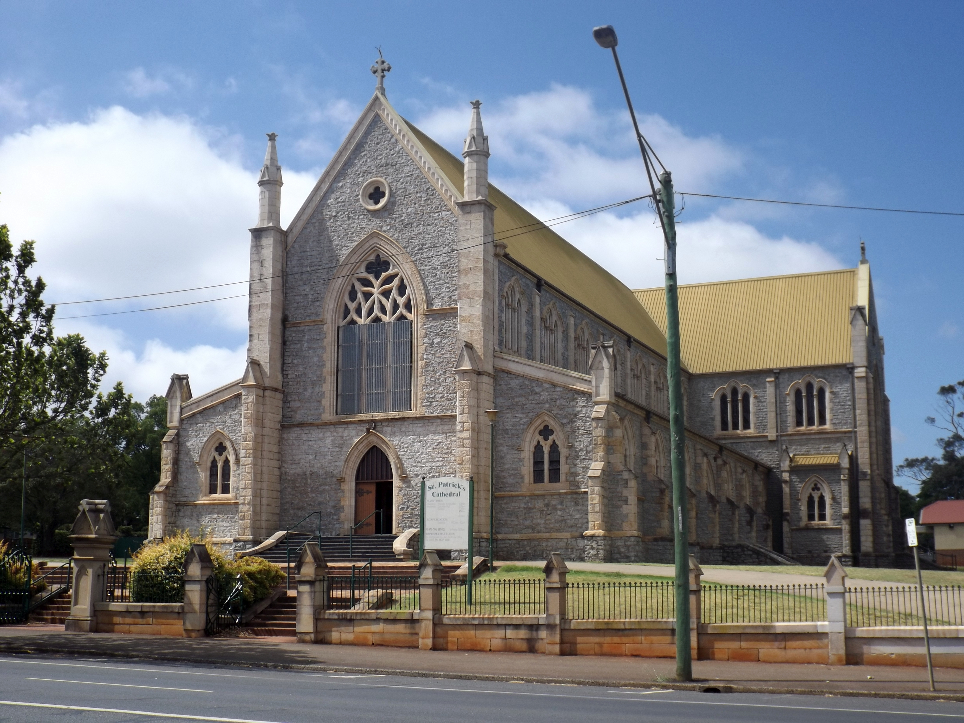 Photo of St Patricks Cathedral in South Toowoomba, Queensland, Australia.